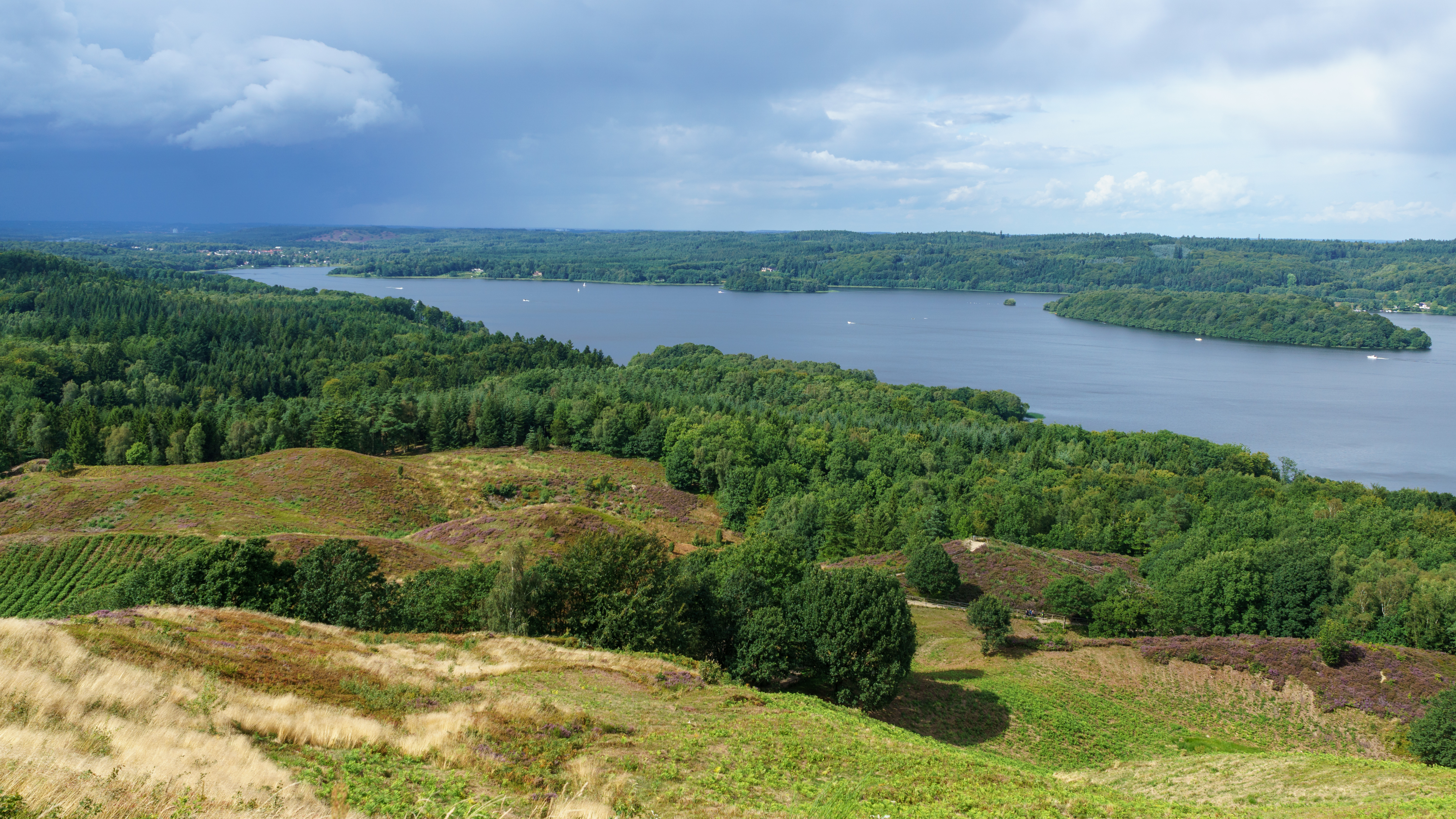 Lake Julsø from Himmelbjerget